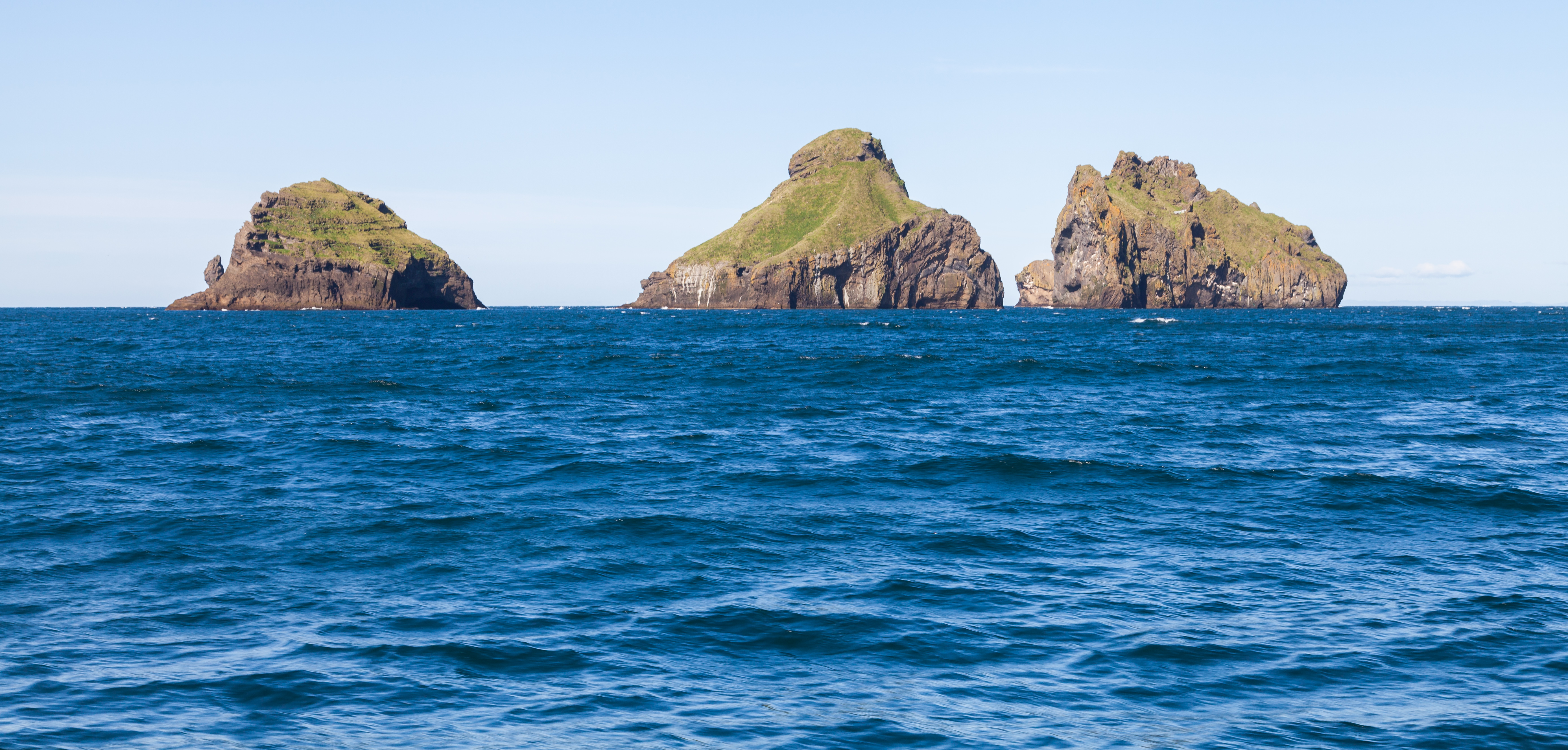 Islas Smáeyjar, Westman Islands, Suðurland, Iceland